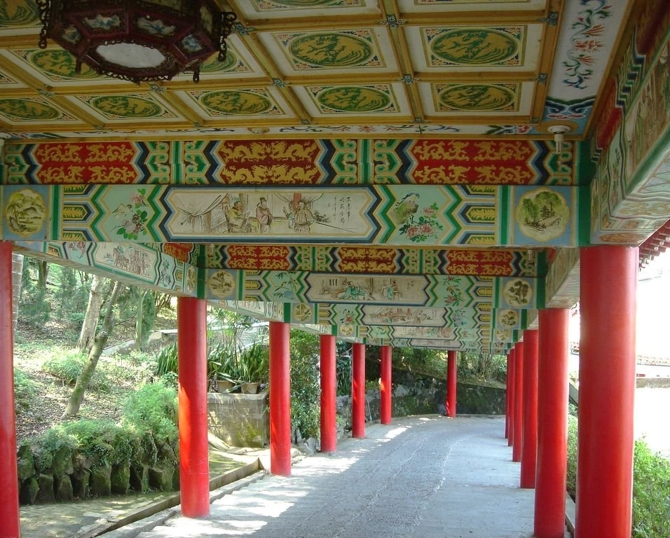 Covered walkway at Zhinan Temple. Taipei, Taiwan